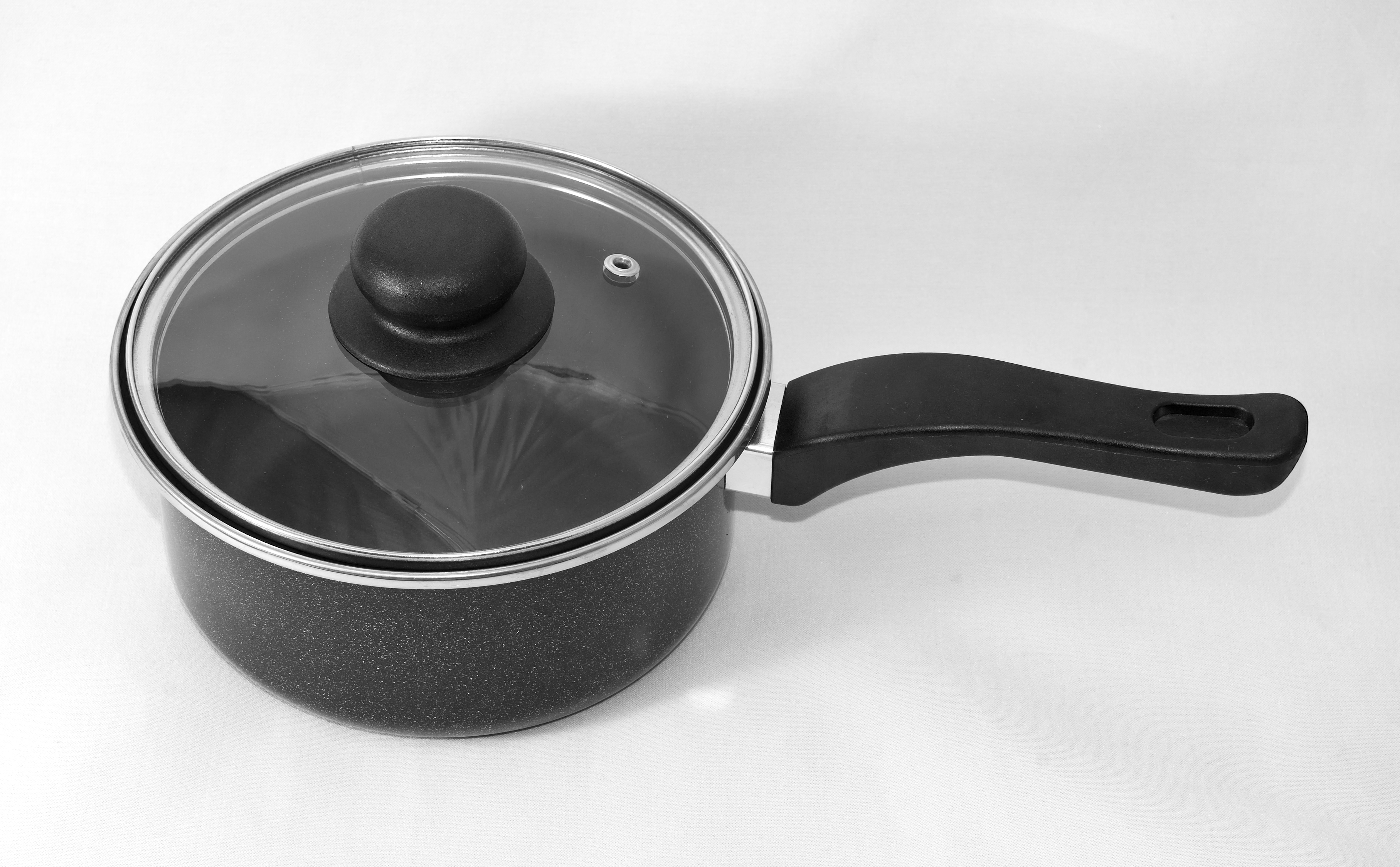 Pot with handle, 1.5L